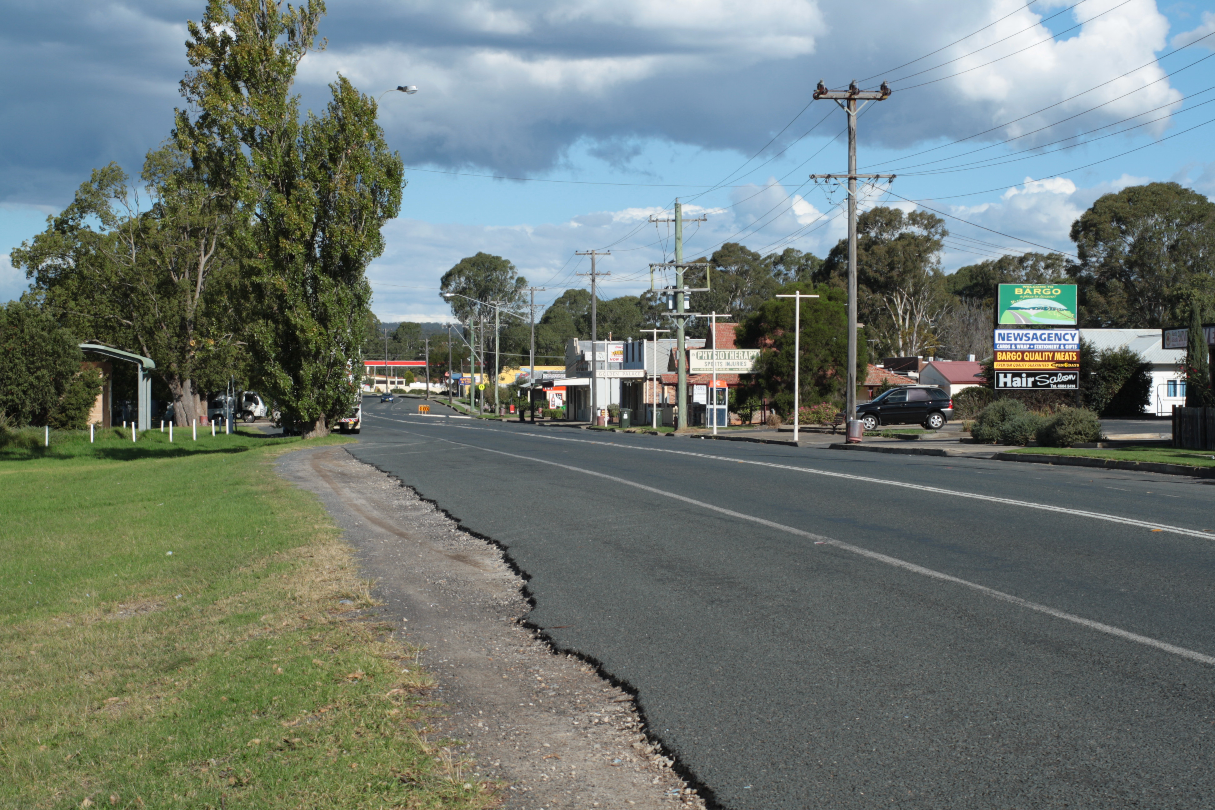 Main street of Bargo New South Wales Australia looking southwards.